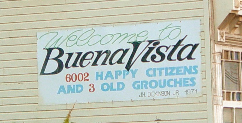 Building sign reading, "Welcome to Buena Vista. 6002 happy citizens and 3 old grouches."